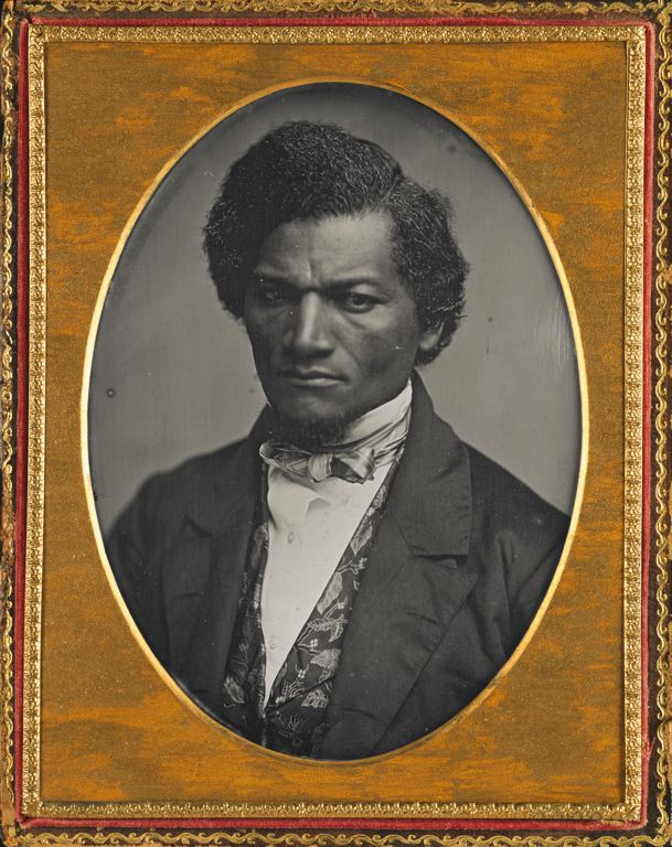 Samuel J. Miller American, 1822-1888 Frederick Douglass, 1847-52 Cased half-plate daguerreotype Plate: 14 x 10.6 cm (5 1/2 x 4 1/8 in.); mat opening: 12.1 x 8.8 cm (4 3/4 x 3 1/2 in.); plate in closed case: 15.2 x 12 x 1.4 cm (6 x 4 3/4 x 1/2 in.); plate in open case: 15.2 x 24 x 2 cm (6 x 9 1/2 x 3/4 in.) Major Acquisitions Centennial Endowment, 1996.433